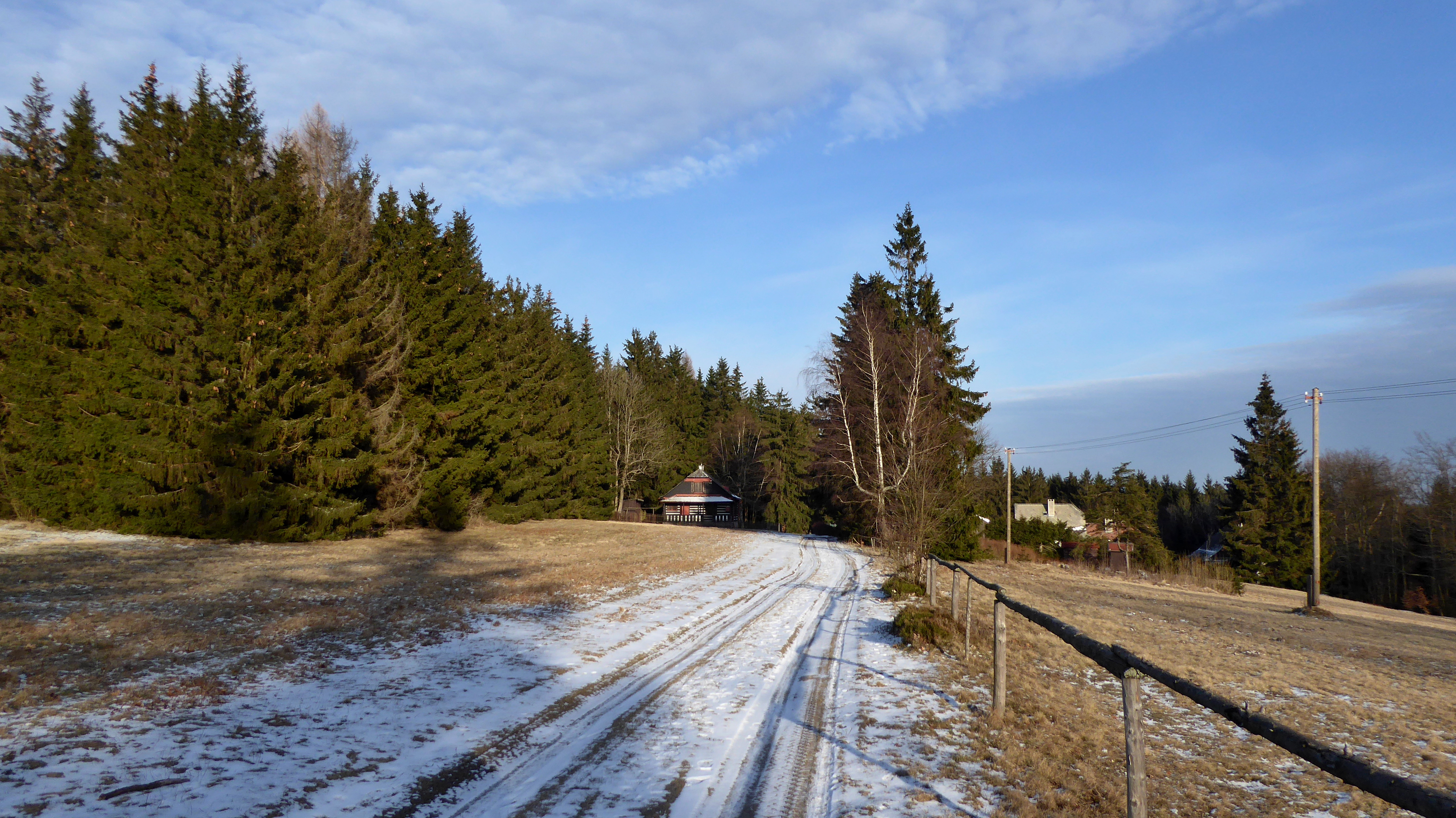 The flat top part nearby the trigonometrical of point with name "Karlštejn" (783,4 m asl) on the cadastral territory of Svratouch, belonging to the Pardubice Region in the Czech Republic. The top of the georelief is at an altitude of 784 m above sea level according to the contour map of the Czech Republic. In the top part of the hill there are hiking trails of the Czech Tourists Club. The red marked in the section Karlštejn - the natural monument "Rybenské Perničky" and blue marked in the section Karlštejn - the natural monument "Zkamenělý zámek" (the path in the photo). Photo-location: Czechia, Pardubice Region, the village of "Svratouch", meadows in the top part of the hill "Karlštejn", azimuth 90°.